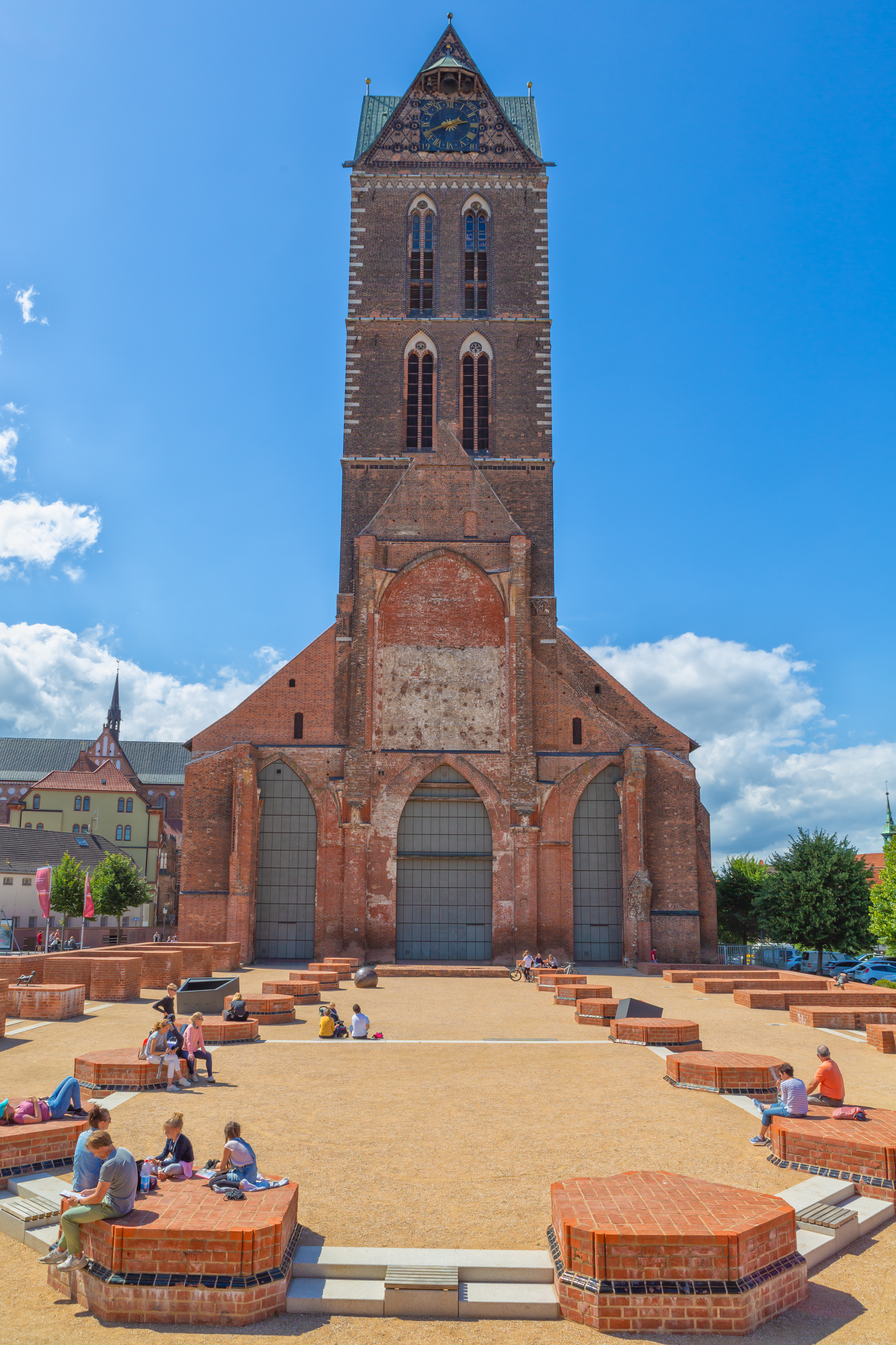 Marienchurch, Wismar, seen from East